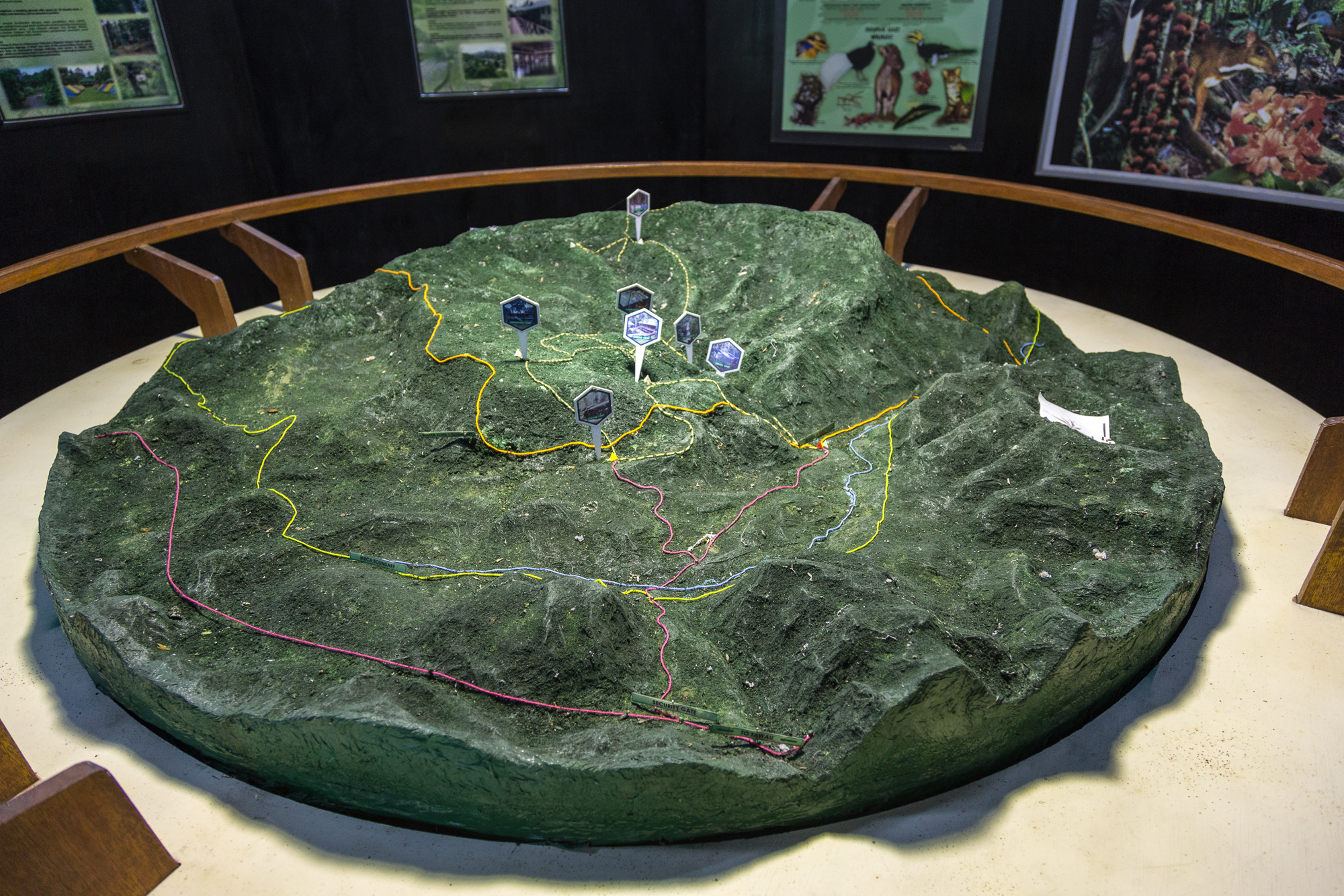 Maliau Basin, Sabah: Shell Maliau Basin Reception & Information Building